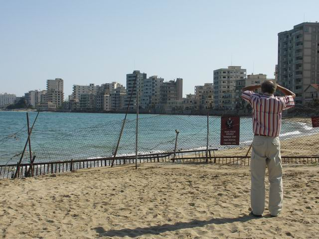 ghost town Varosia